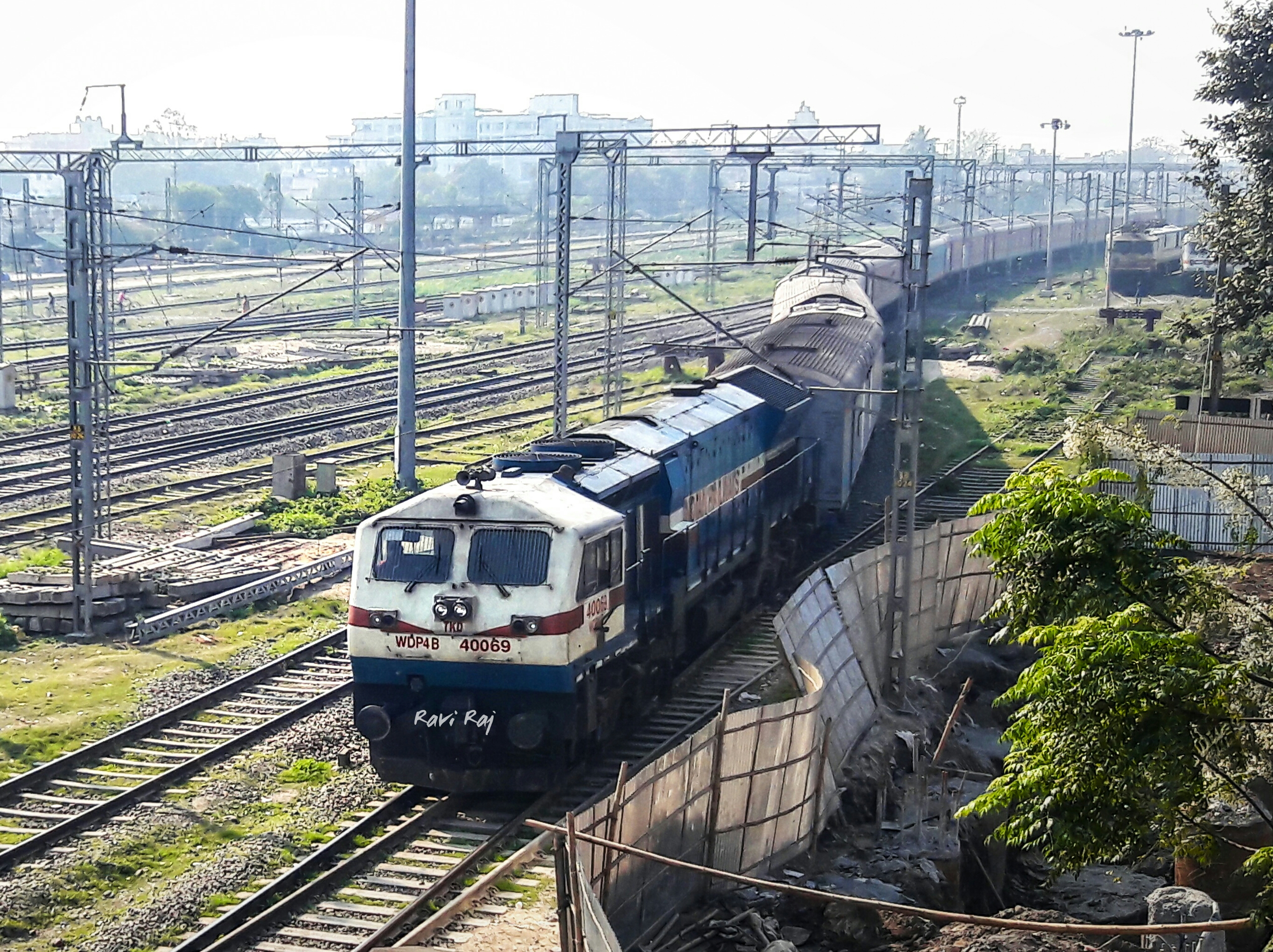 March, 2020